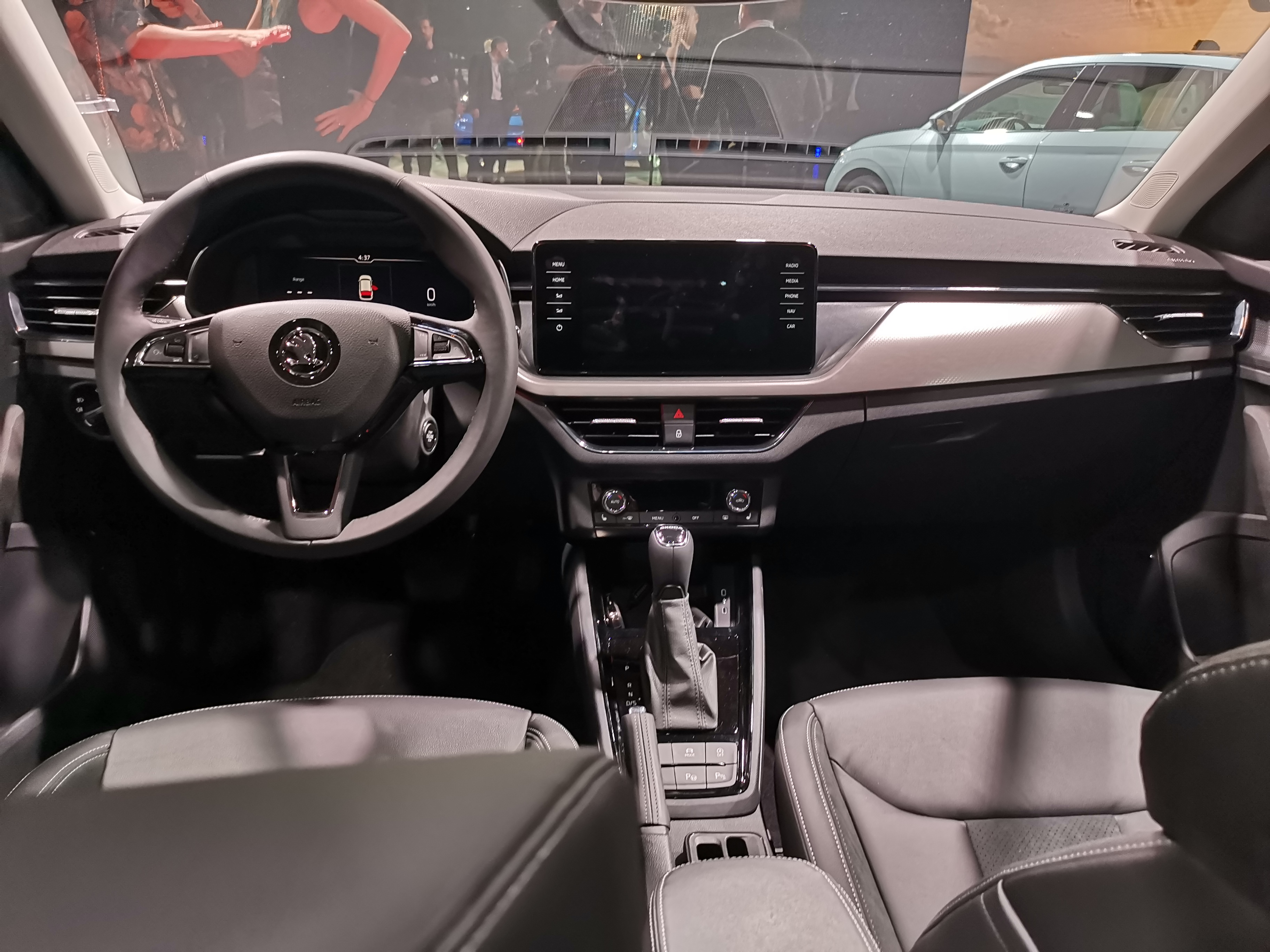 Škoda Scala during the presentation in Tel Aviv, 2018